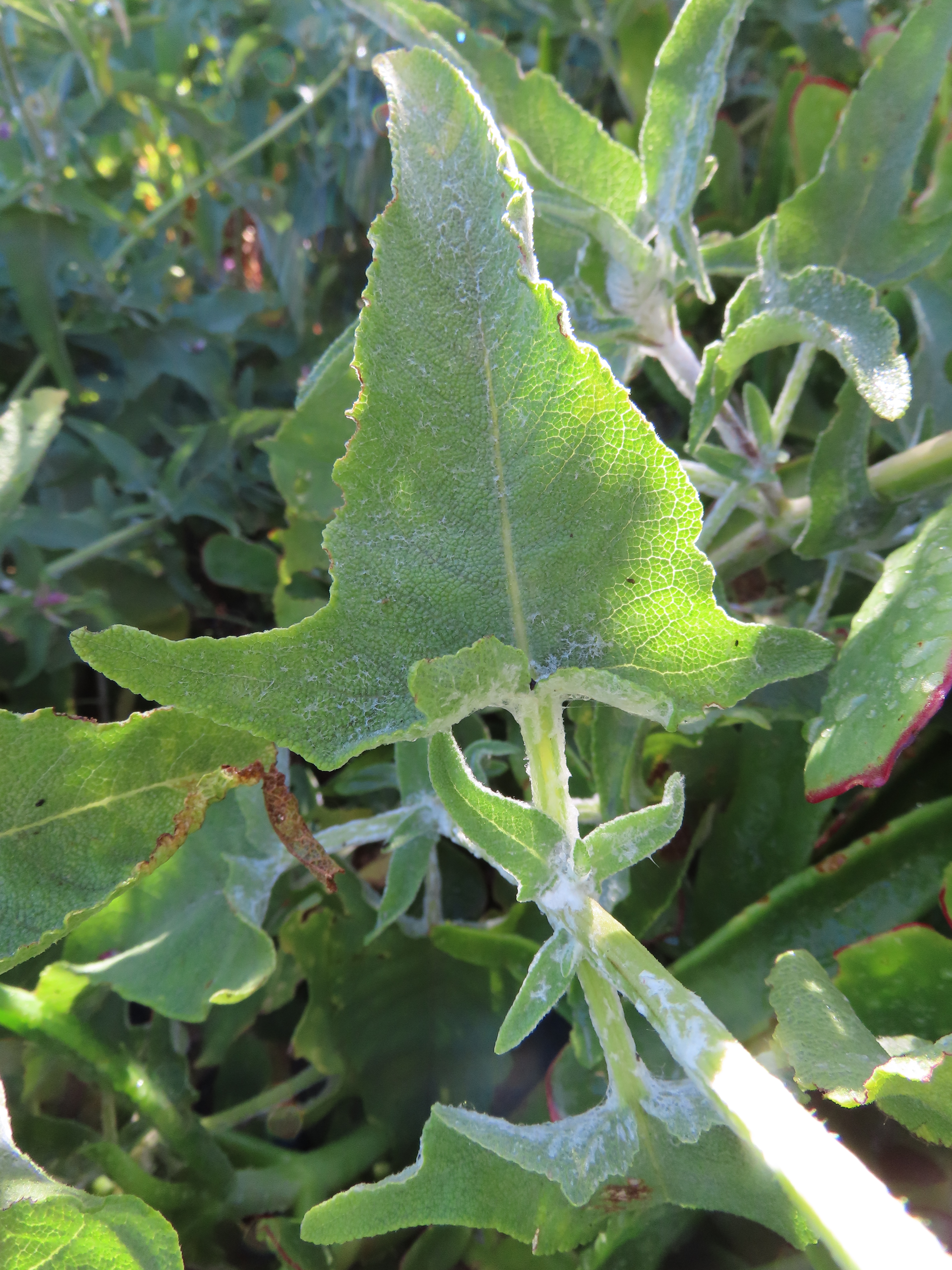 Hastate leaf of Salvia canariensis is elaborately halberd-like, as opposed to sagittate, the difference being that in sagittate leaves the lobes at the base of the lamina extend abackwards, rather than sideways.